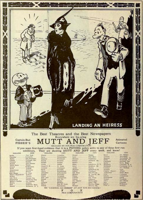 Ad for the Mutt and Jeff animated film Landing an Heiress (1919), on page 726 of the February 8, 1919 Moving Picture World.